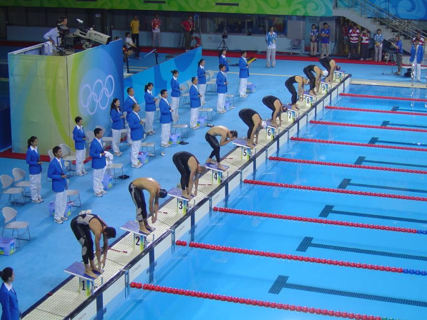 The swimming competition (heat 3) of the men's Modern pentathlon at the 2008 Summer Olympics in the Ying Tung Natatorium. From the left: Jaime Lopez, Deniss Čerkovskis, Marcin Horbacz, Andrejus Zadneprovskis, Samuel Weale, Dmitry Meliakh, Viktor Horváth, David Svoboda, and Yahor Lapo